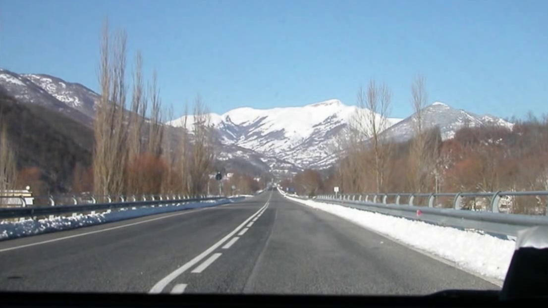 Picture taken on State Road n. 4 "Via Salaria", from the moving car.